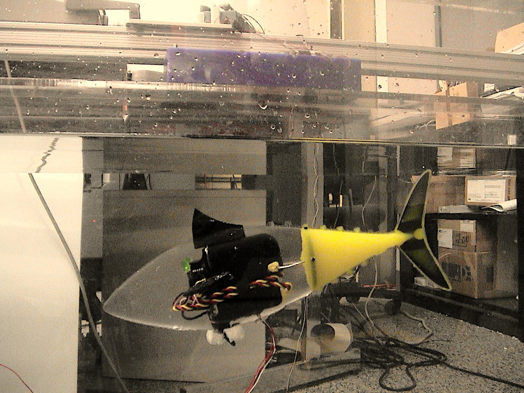 Side view of a soft under-actuated-robot that mimics a tuna fish. A simple mechanism consisting of a flexible visco-elastic body is excited so that its dominant modes of vibration match the desired body motions for locomotion.